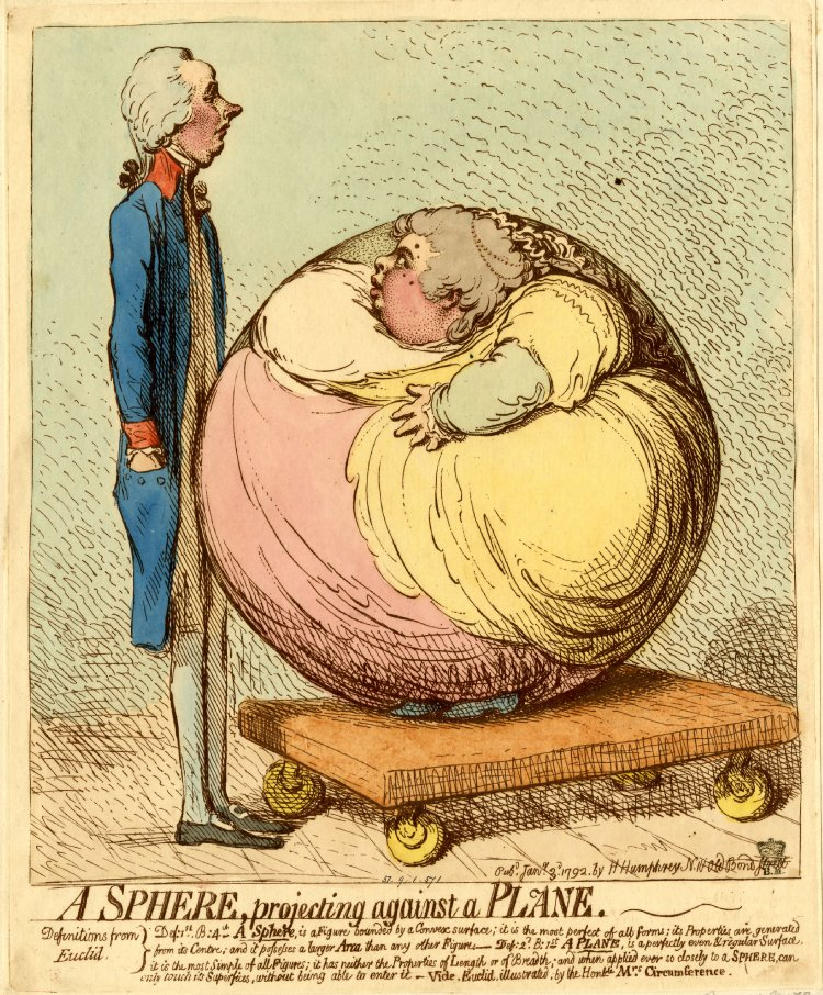 Albinia Hobart in an engraving by James Gillray "A sphere, projecting against a plan" 1792